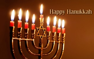 PM tweets in Hebrew to greet people on the occasion of Hanukkah